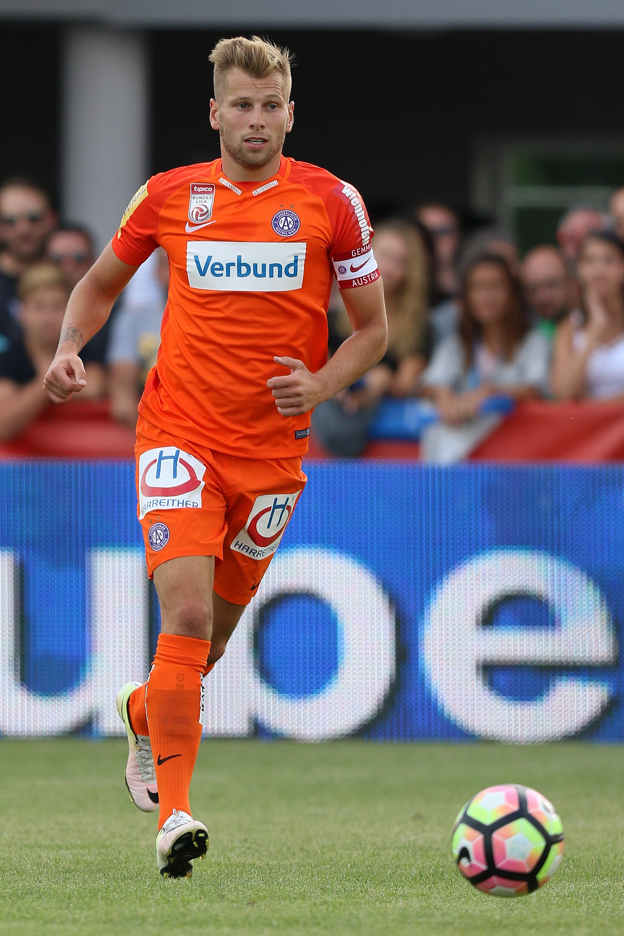 2017–18 Austrian Cup - ASK Ebreichsdorf (blue shirts) vs. FK Austria Wien (orange shirts) 0-0, penaltyscore 3-4. – The photo shows Alexander Grünwald